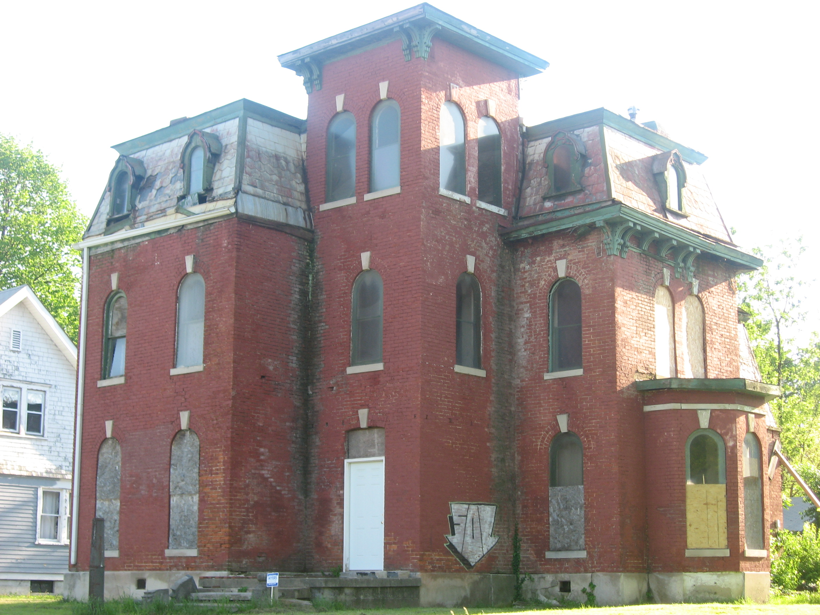 Front and northern side of the Horner-Terrill House, located at 410 S. Emerson Avenue in Indianapolis, Indiana, United States. Built in 1875, it is listed on the National Register of Historic Places.